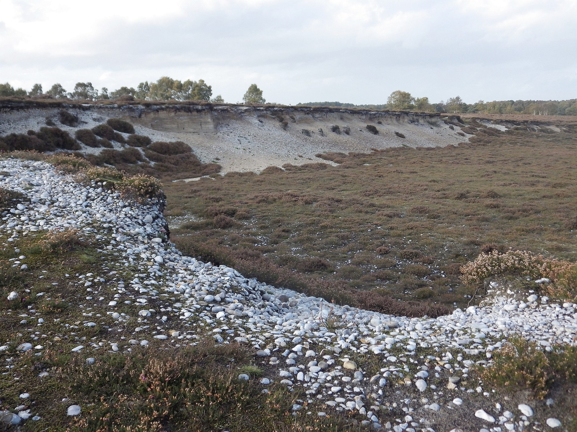 View of early Pleistocene flint gravel of the Westleton Beds, exposed in an old quarry on Westleton Heath, Suffolk, UK. It is thought to have been deposited as shoreface shingle or in offshore channels during the Baventian cold stage, about 1.85 million years ago.